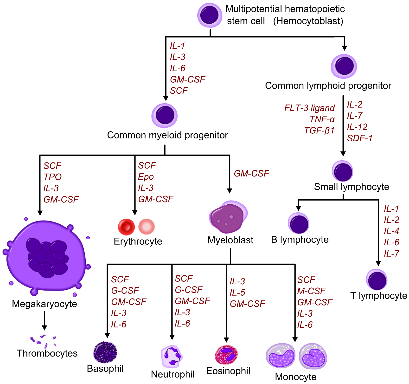 Hematopoiesis as it occurs in humans, with important hemopoietic growth factors affecting differentiation. Legend: SCF= Stem Cell Factor Tpo= Thrombopoietin IL= Interleukin GM-CSF= Granulocyte Macrophage-colony stimulating factor Epo= Erythropoietin M-CSF= Macrophage-colony stimulating factor G-CSF= Granulocyte-colony stimulating factor SDF-1= Stromal cell-derived factor-1 FLT-3 ligand= FMS-like tyrosine kinase 3 ligand TNF-a = Tumour necrosis factor-alpha TGF-β = Transforming growth factor beta References: For the growth factors also mentioned in previous version Hematopoiesis (human) cytokines.jpg: Molecular cell biology. Lodish, Harvey F. 5. ed. : - New York : W. H. Freeman and Co., 2003, 973 s. b ill. ISBN: 0-7167-4366-3 The rest: Rod Flower; Humphrey P. Rang; Maureen M. Dale; Ritter, James M. (2007) Rang & Dale's pharmacology, Edinburgh: Churchill Livingstone ISBN: 0-443-06911-5.